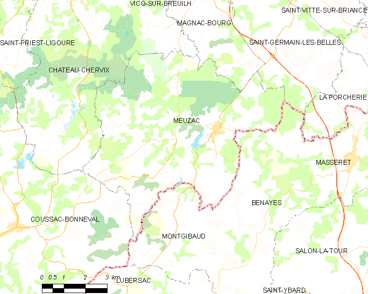 Map of French municipality Meuzac